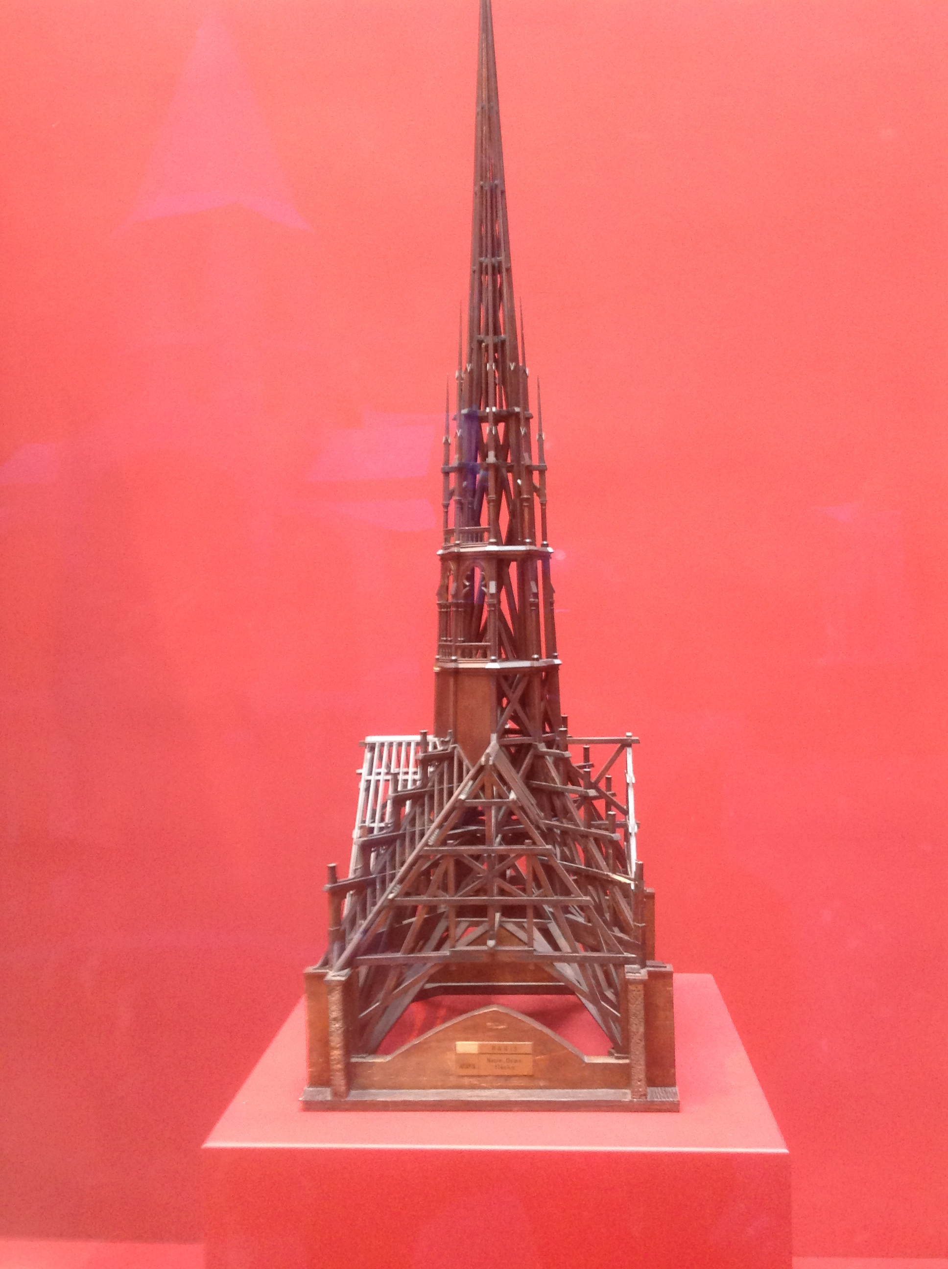 A wooden model of the spire and wooden roof of Notre-Dame de Paris, made for architect Eugene Viollet-le-Duc (1859), Now in the Museum of Historic Monuments, Paris